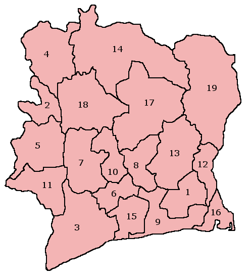 Numbered Region Map of Côte d'Ivoire